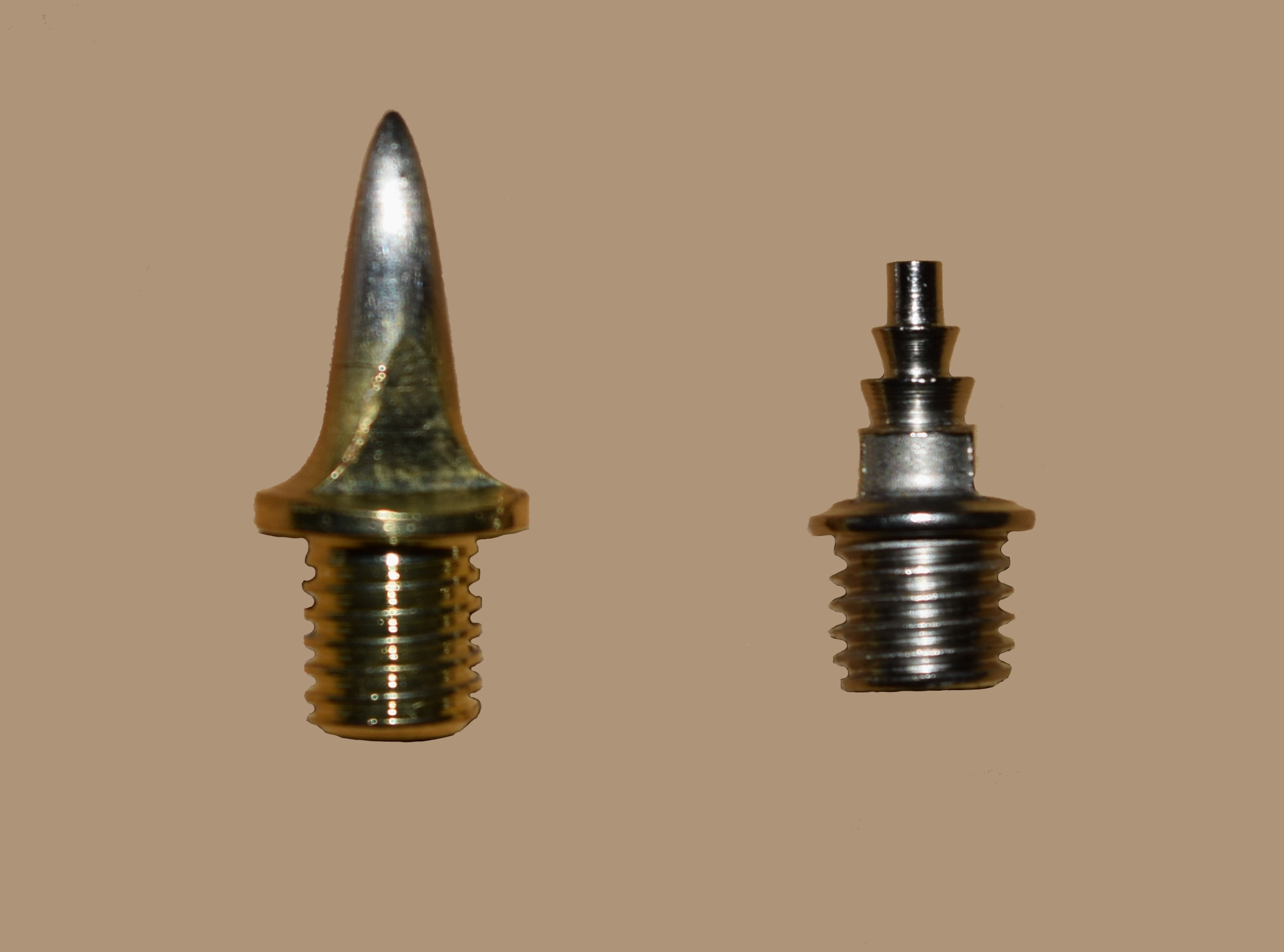 Two types of track spikes. On the left is a pointed spike (needle) for a dirt surface. On the right is an 8-millimeter compression tier (Christmas tree) pin for use on synthetic tracks.